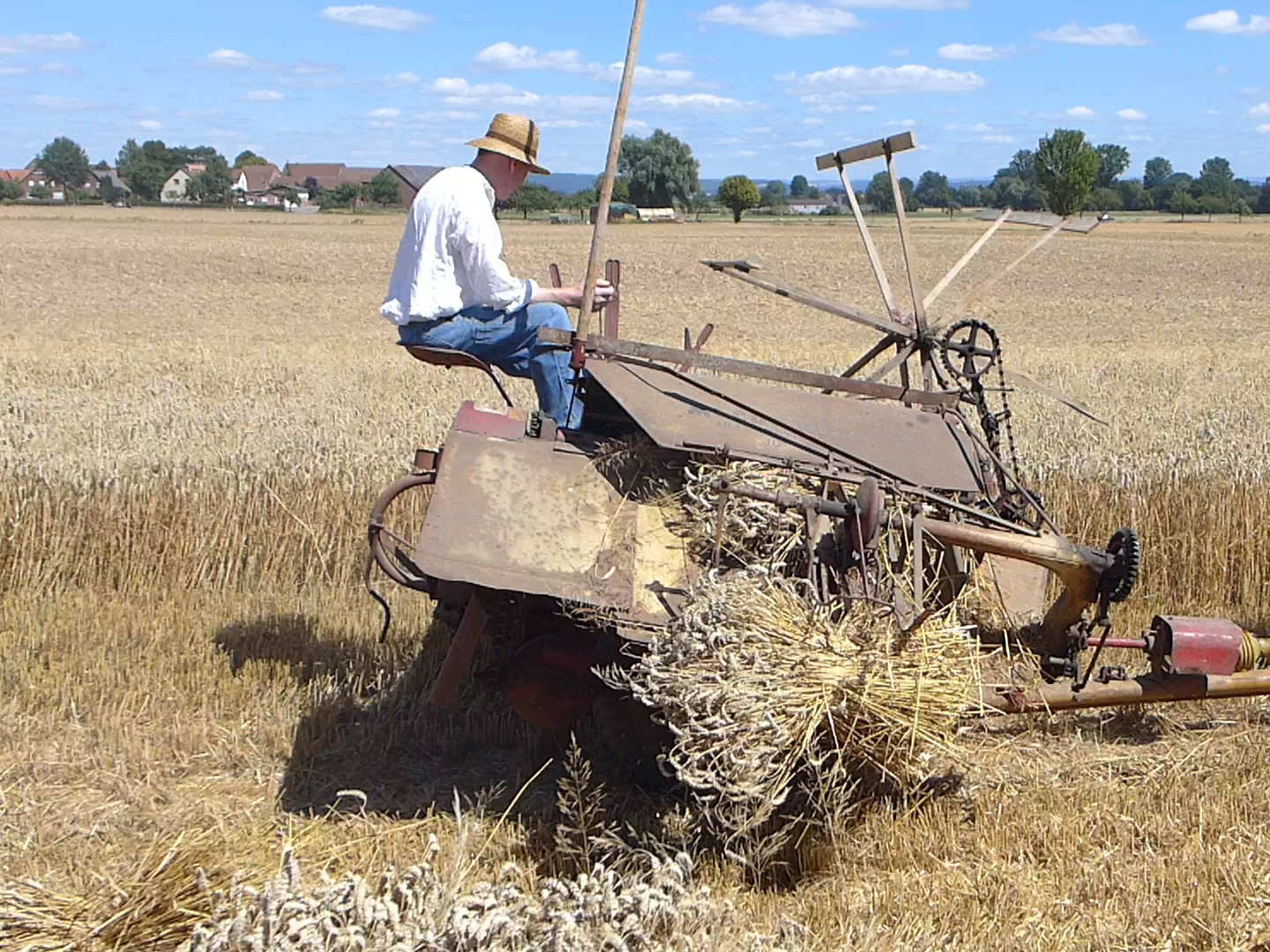 2018 in Eilensen